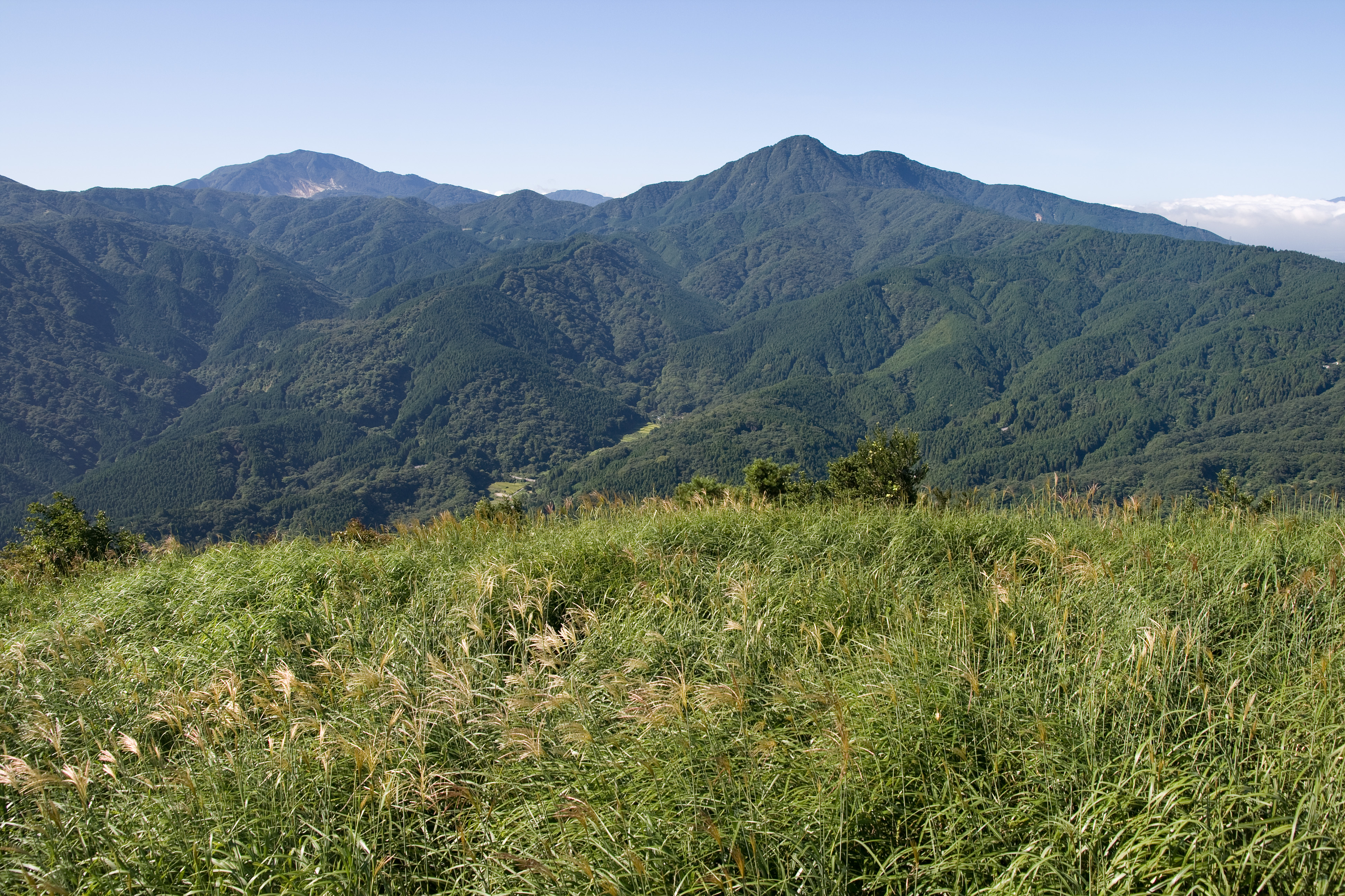 Mt.Kintoki as seen from Mt.Yaguradake in Kanagawa Prefecture, Honshu, Japan.